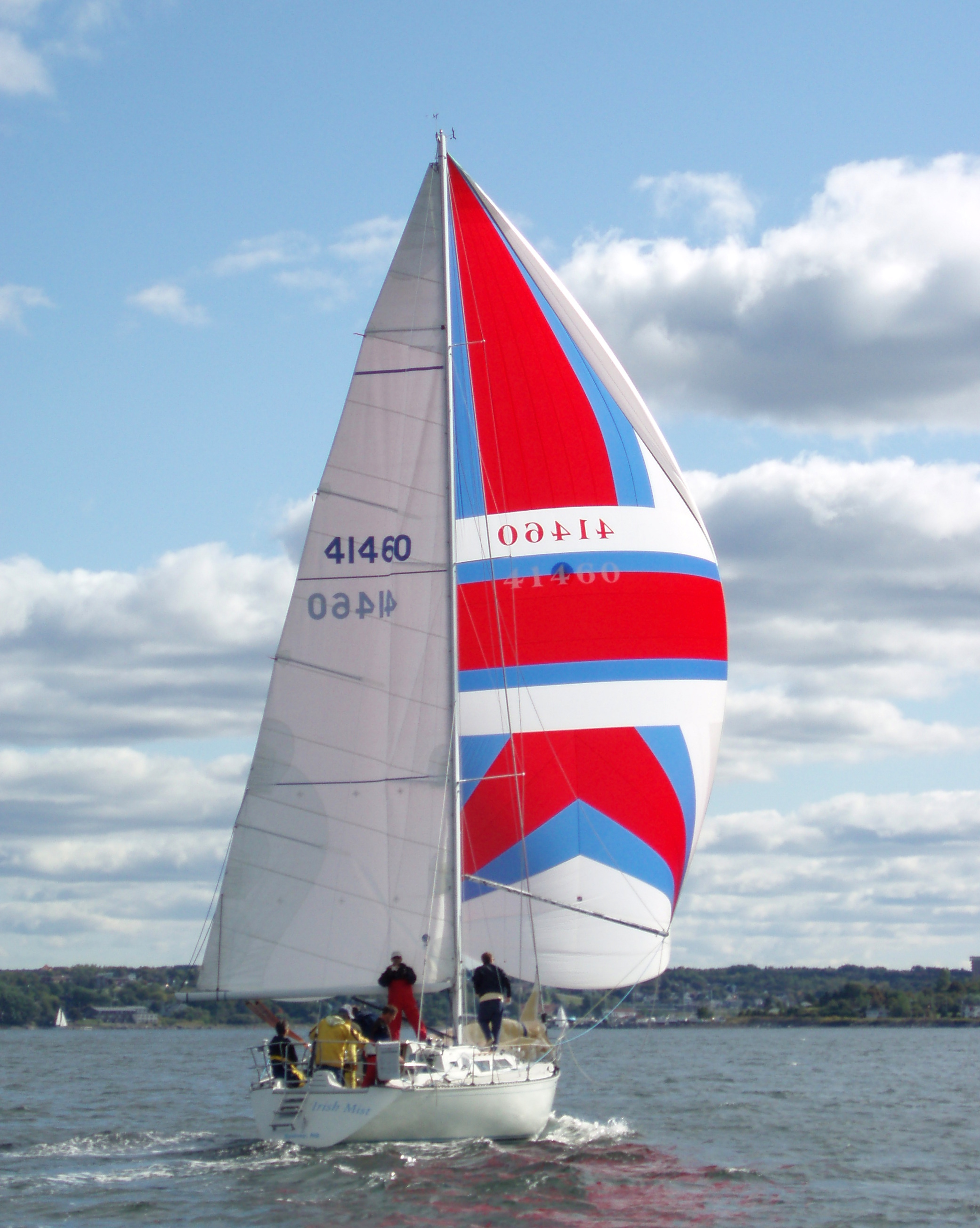 The C&C 38-3 Irish Mist sailing in Sydney Harbour, Nova Scotia, Canada.